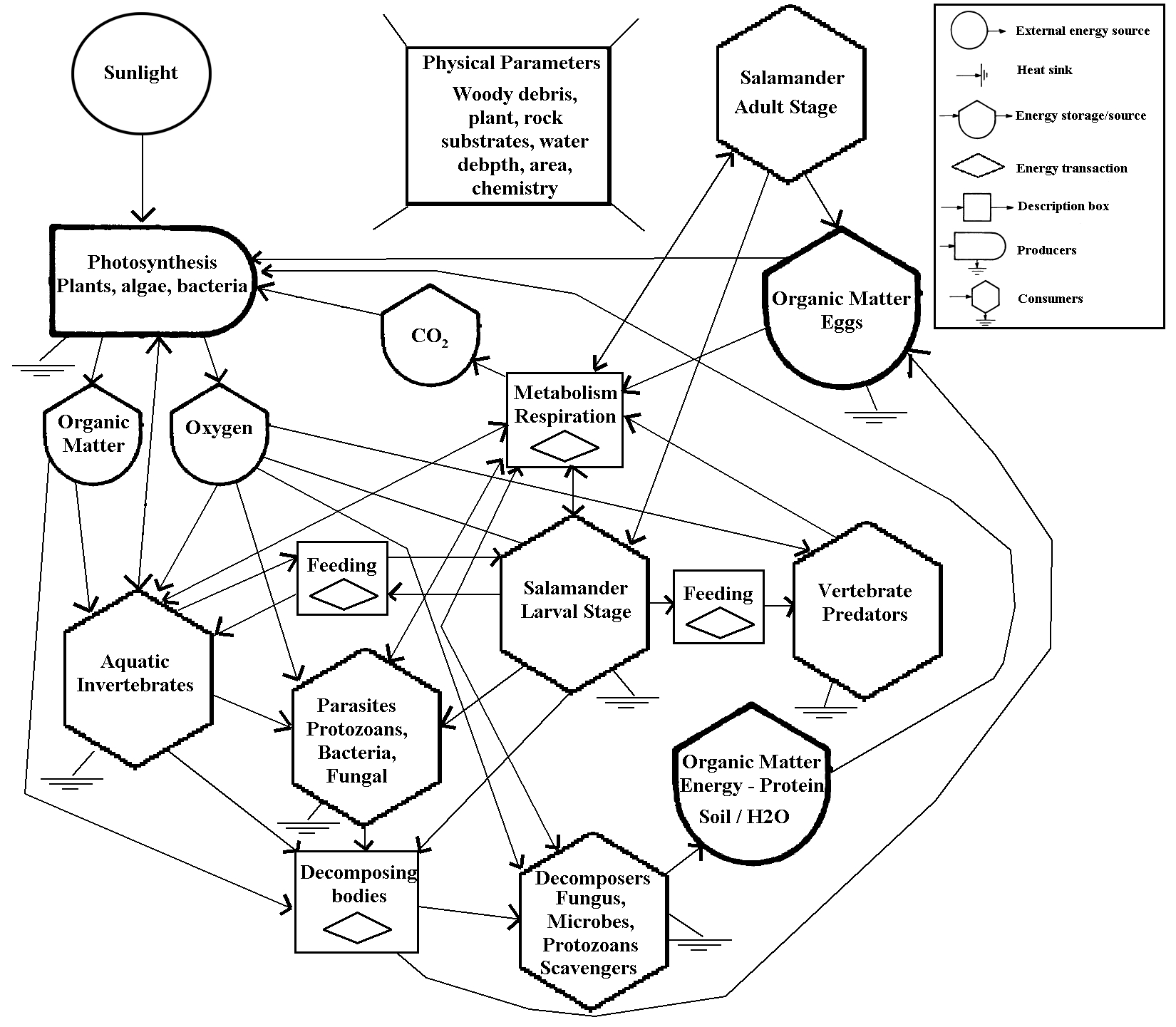 This is a schematic illustration of a salamander food web. The energy flow diagrams and symbols are adopted from Odum & Odum The American Biology Teacher, Vol. 39, No. 7 (Oct., 1977), pp. 420-423